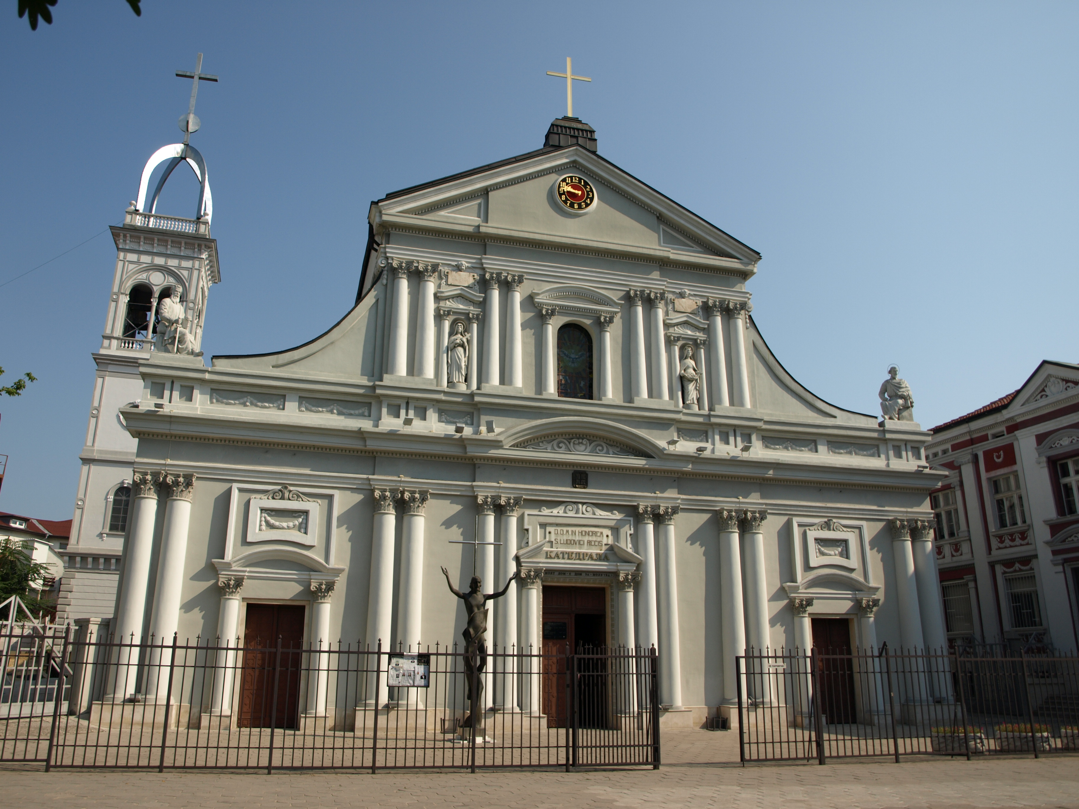 Roman Catholic Cathedral of St Louis, Plovdiv, Bulgaria